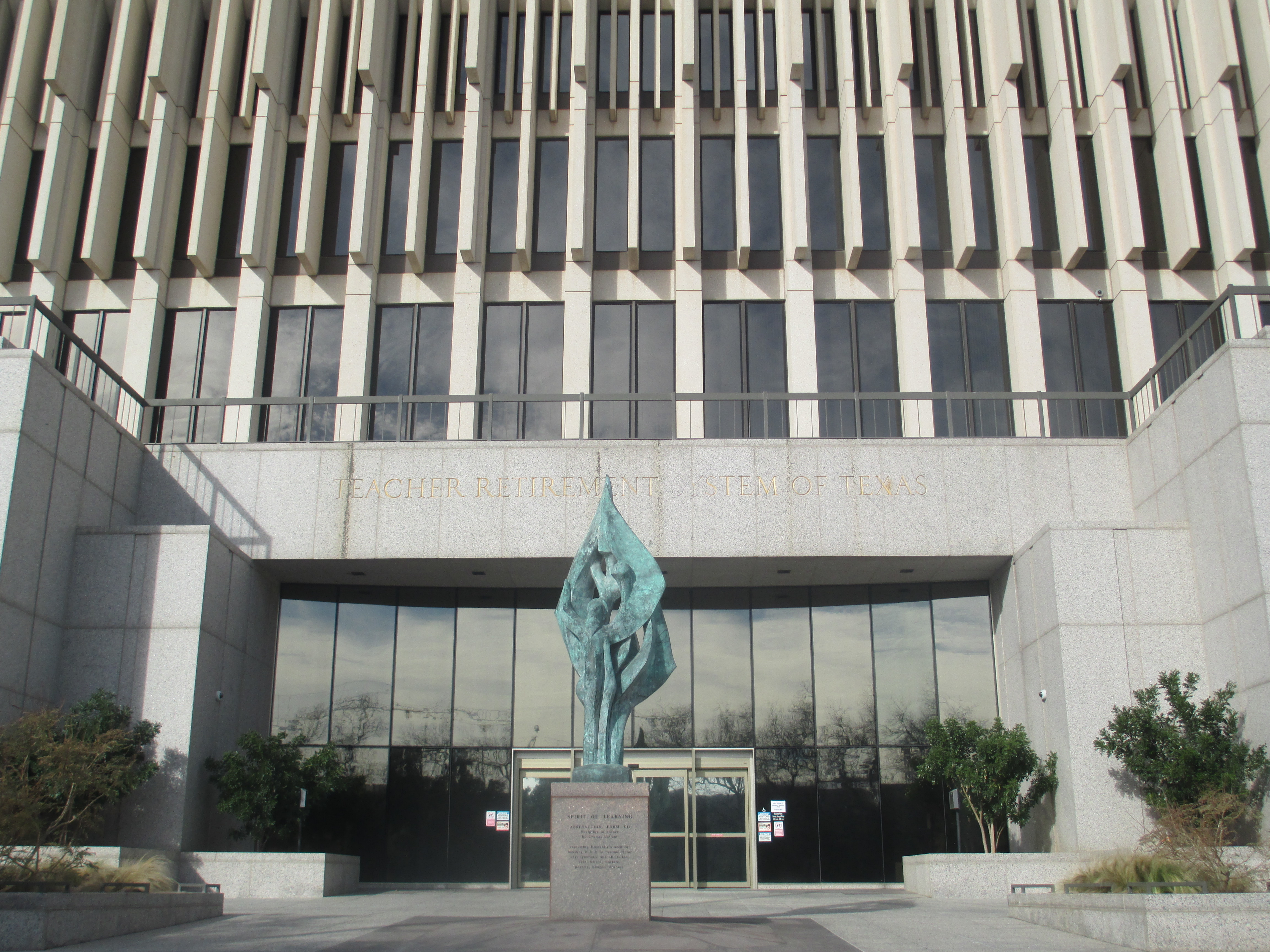 Canon camera, Teacher Retirement System of Texas, Austin, TX, 1-19-2013